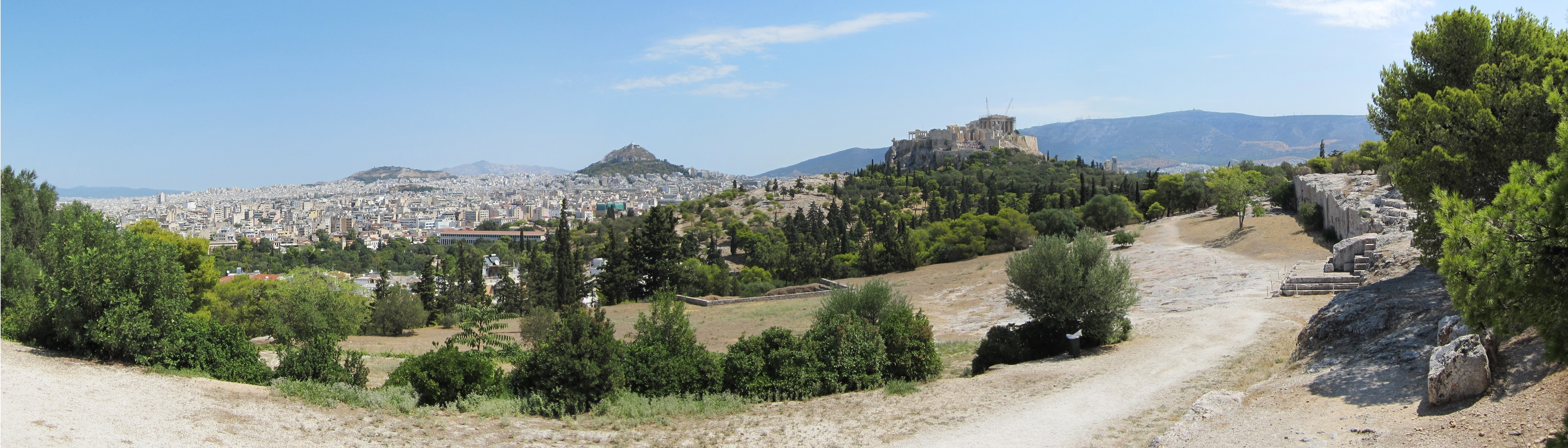 Panorama of Athens from Pnyx. In foreground: meeting place for the Ecclesia; on the right: bema (speaker's platform). In background, left: Agora; center: Mount Lycabettus and Acropolis.